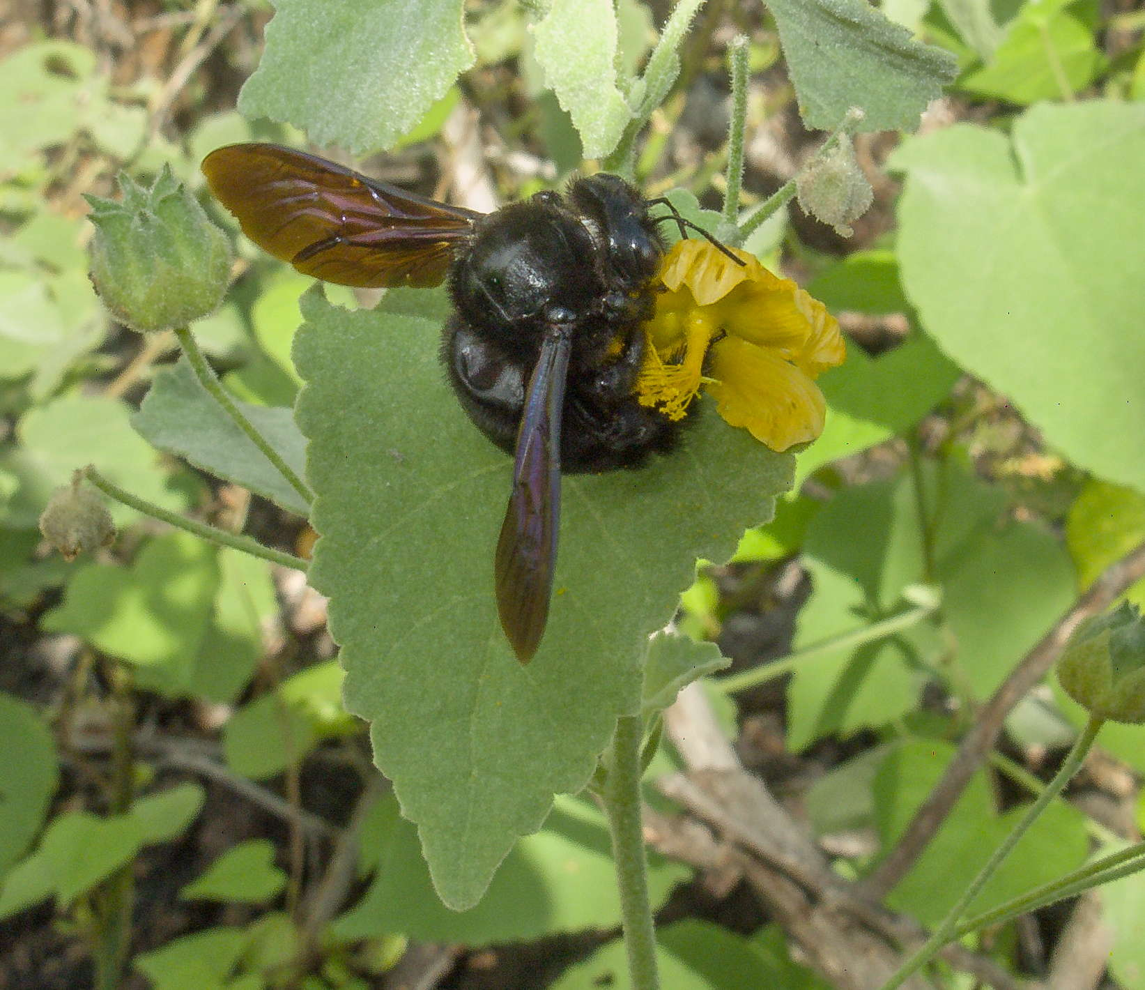 Xylocopa darwini (Galápagos carpenter bee) on Bastardia viscosa (viscid mallow), beside landing beach for Cerro Dragón (Dragon Hill), Santa Cruz Island, Galapágos